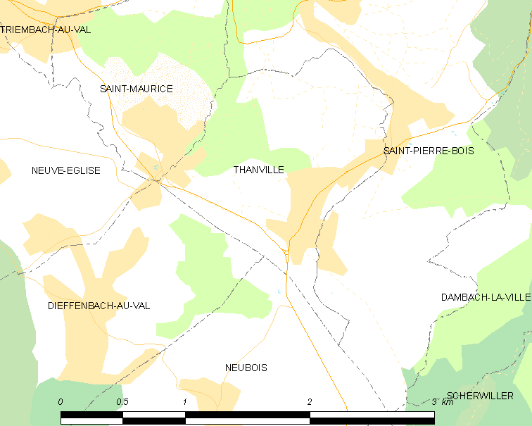 Map of French municipality